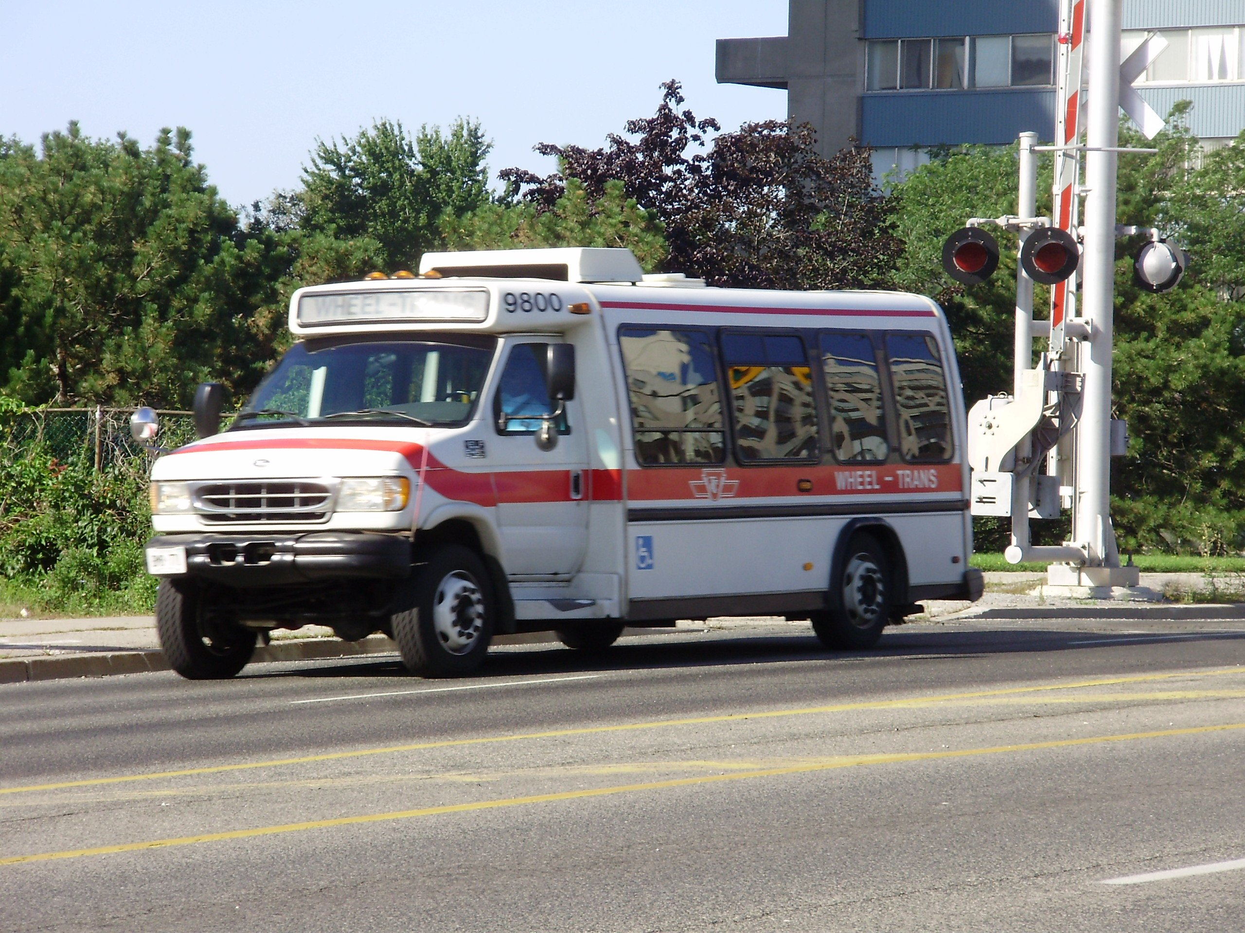 The Toronto Transit Commission's Wheel-Trans vehicle #9800, an Overland Custom Coach ELF low-floor accessible bus, on Sheppard Avenue East in North York, Ontario, Canada.